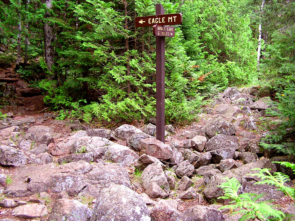 Junction of the rugged Eagle Mountain and Brule Lake trails in the Boundary Waters Canoe Area of Minnesota. Taken in July of 2006 by Douglas Kaye.